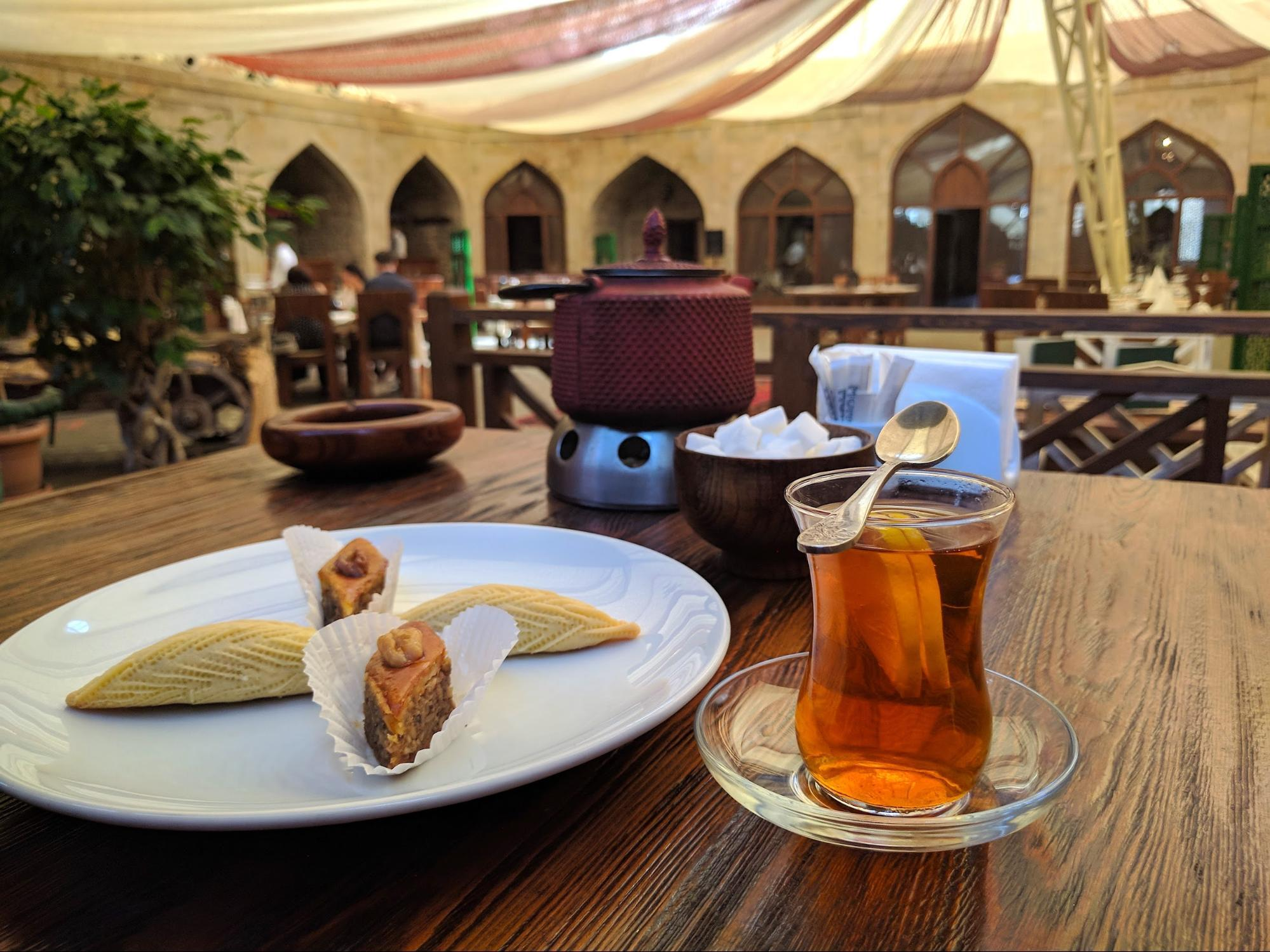 Badambura with tea